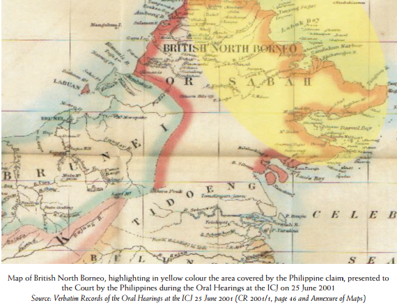 Map of British North Borneo, highlighting in yellow colour the area covered by the Philippine claim, presented to the Court by the Philippines during the Oral Hearings at the ICJ on 25 June 2001 Source: Verbatim Records of the Oral Hearings at the ICJ 25 June 2001 (CR 2001/1, page 46 and Annexure of Maps)